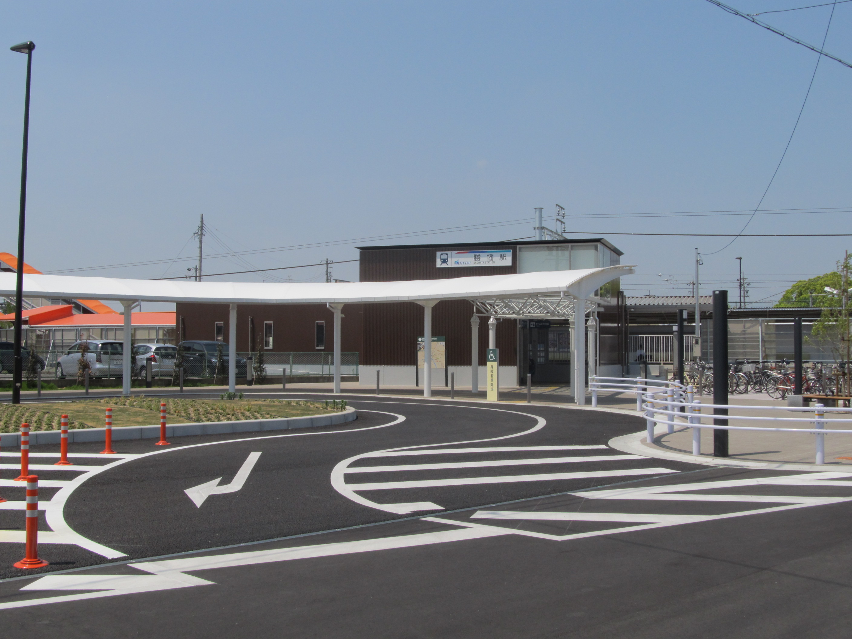 Nagoya Railroad Tsushima Line Shobata Station Southplaza